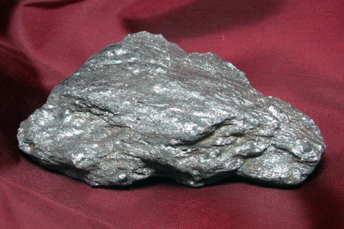 Uncut sample of hematite.